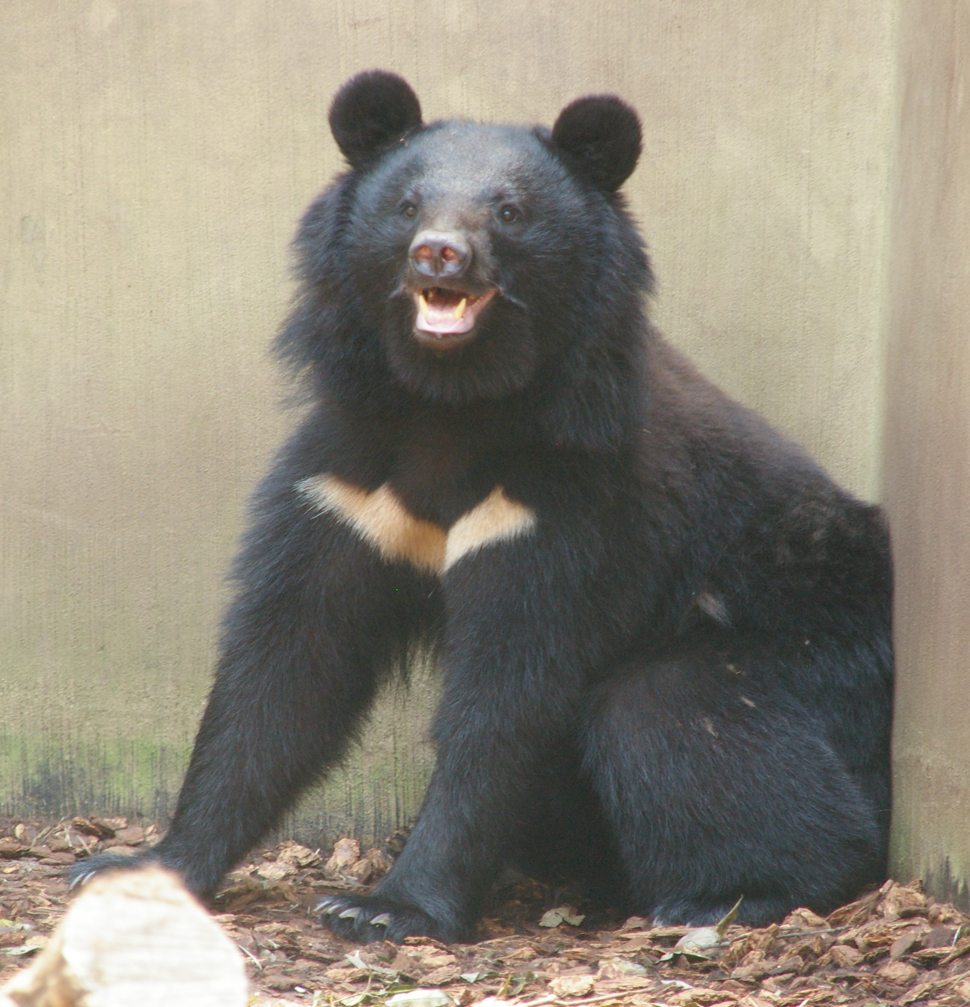 Japanese black bear at the Ueno Zoo